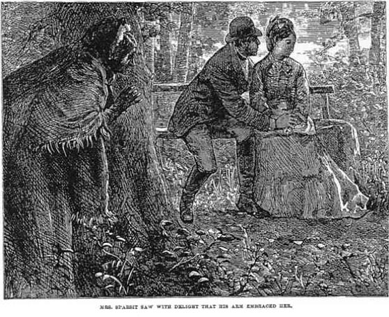 Hard Times, Mrs Sparsit's delights at catching Harthouse and Louisa in the wood.